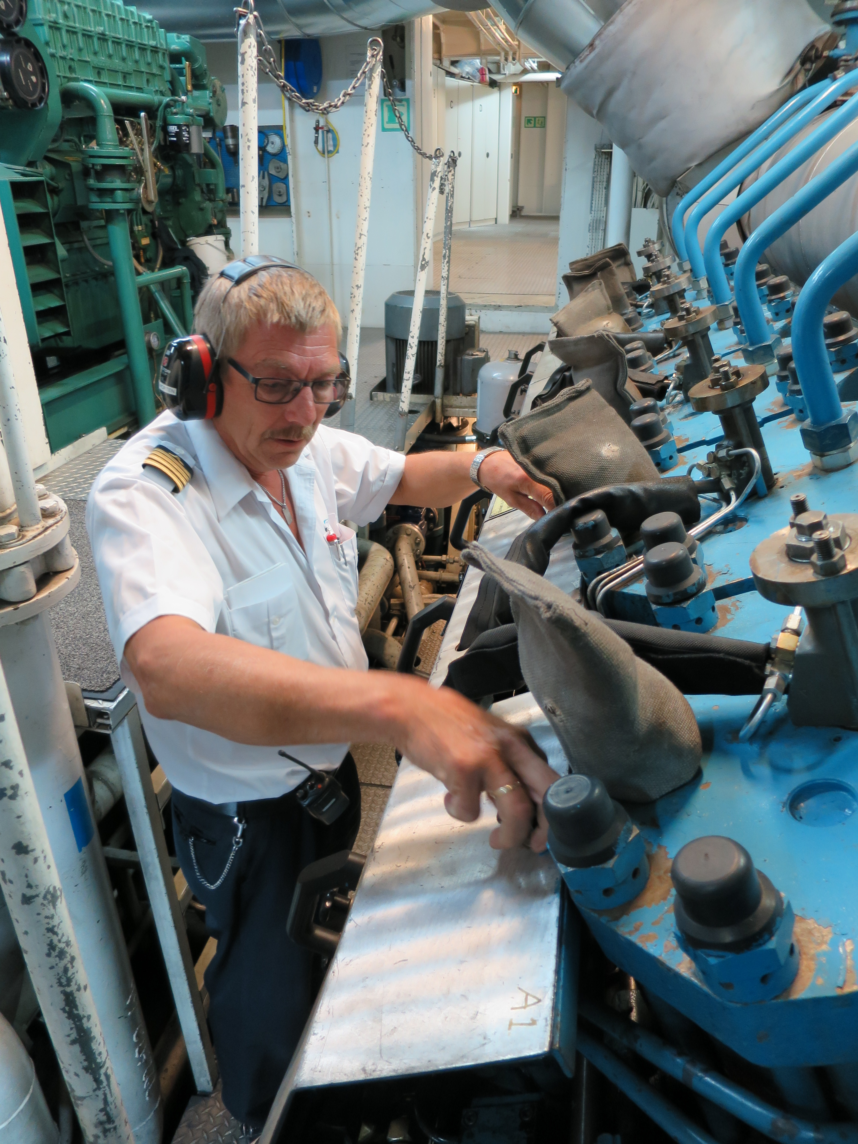 The chief engineer at work on the main engine MF Bastø II